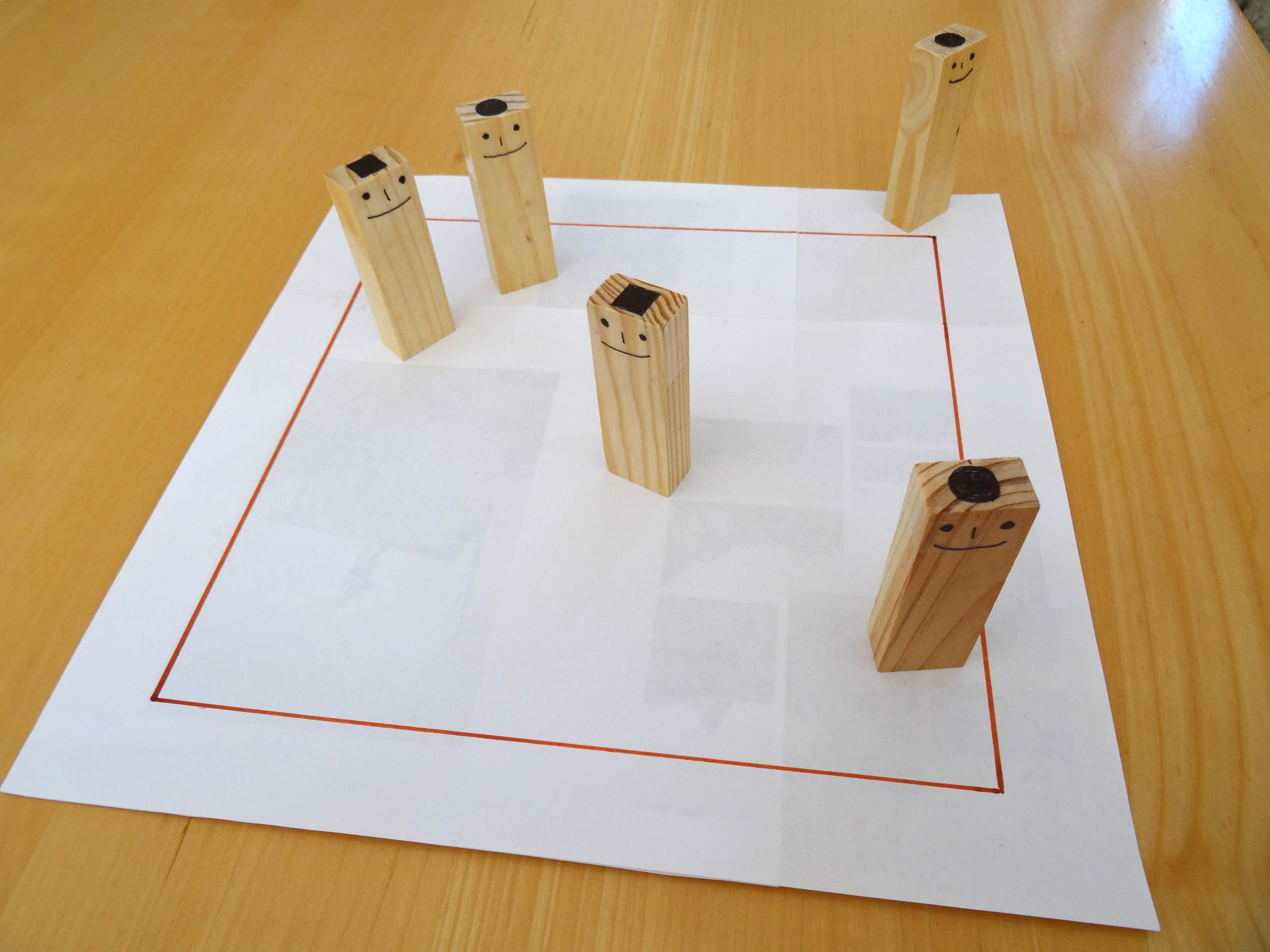 Board to visualize a system constellation (f.i. a family)